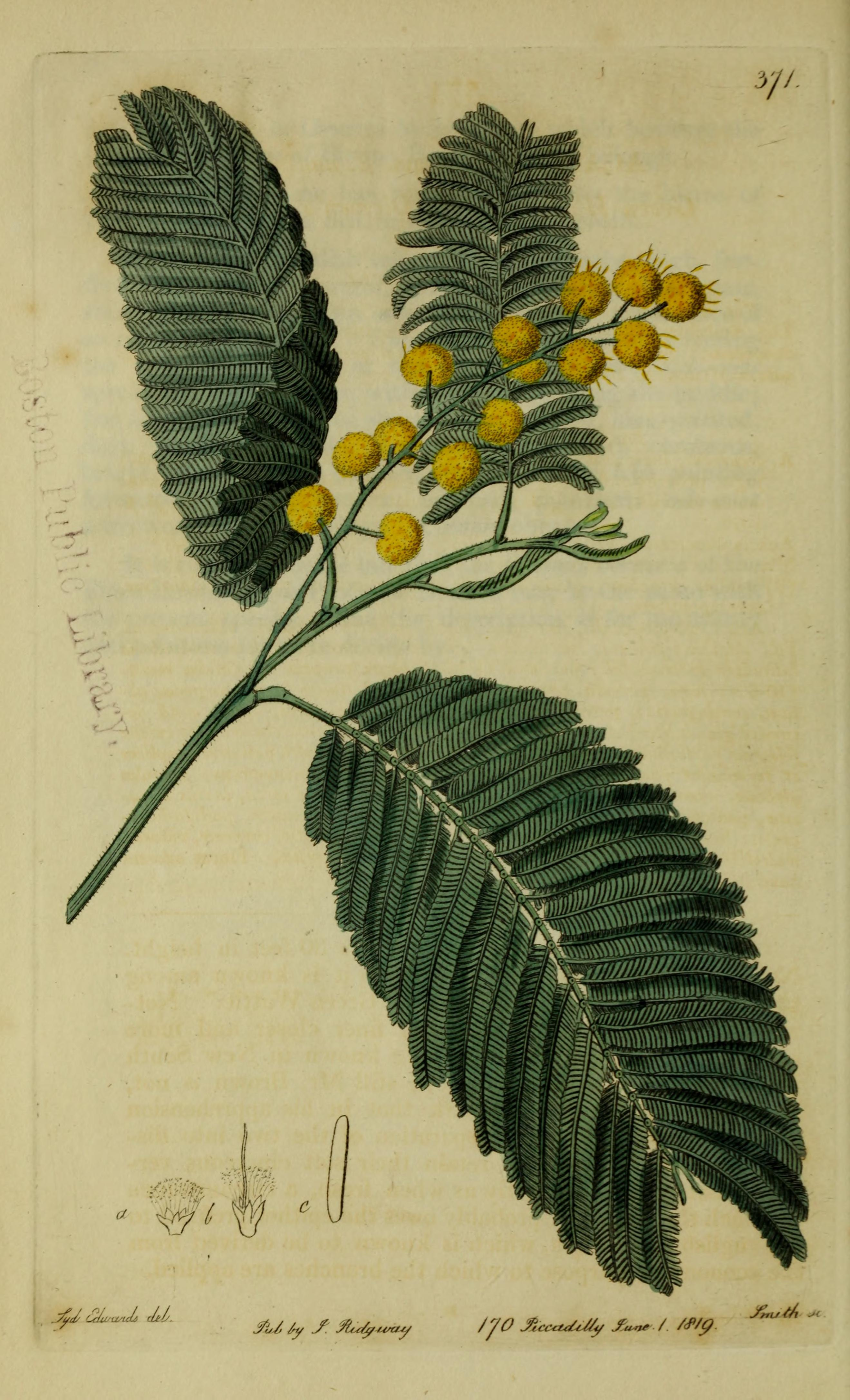 Title: The Botanical register consisting of coloured figures of exotic plants Year: 1815 (1810s) Authors: Edwards, Sydenham, 1768-1819; Shrewsbury, John Talbot, Earl of, 1791-1852, former owner Subjects: Plants, Ornamental; Plant introduction; Botanical illustration; Botany; Floriculture; Botany Publisher: (London : s. n. ) Text Appearing Before Image: ' Text Appearing After Image: '